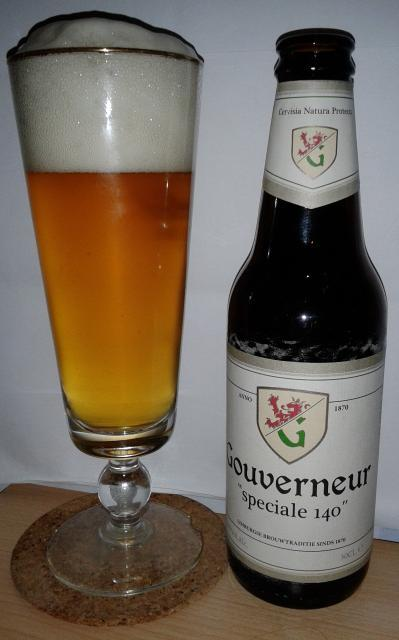 Gouverneur Speciale 140 by Lindeboom (.30 liter bottle + unrelated glass)